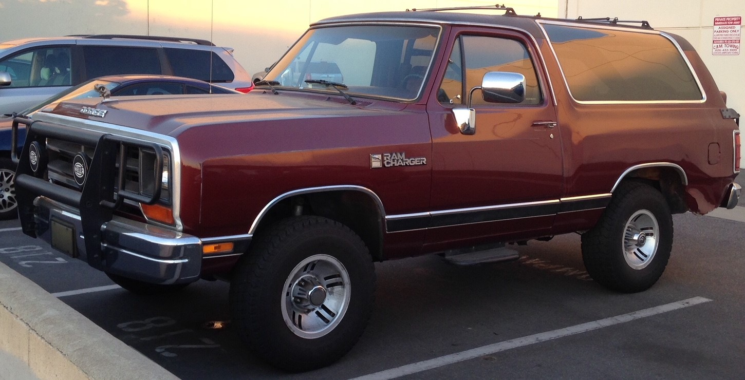 Dodge Ram Charger